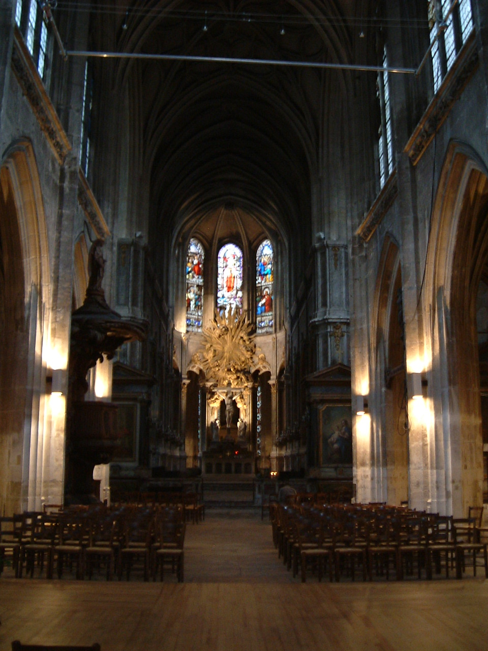 Taken by James@hopgrove, October 2005